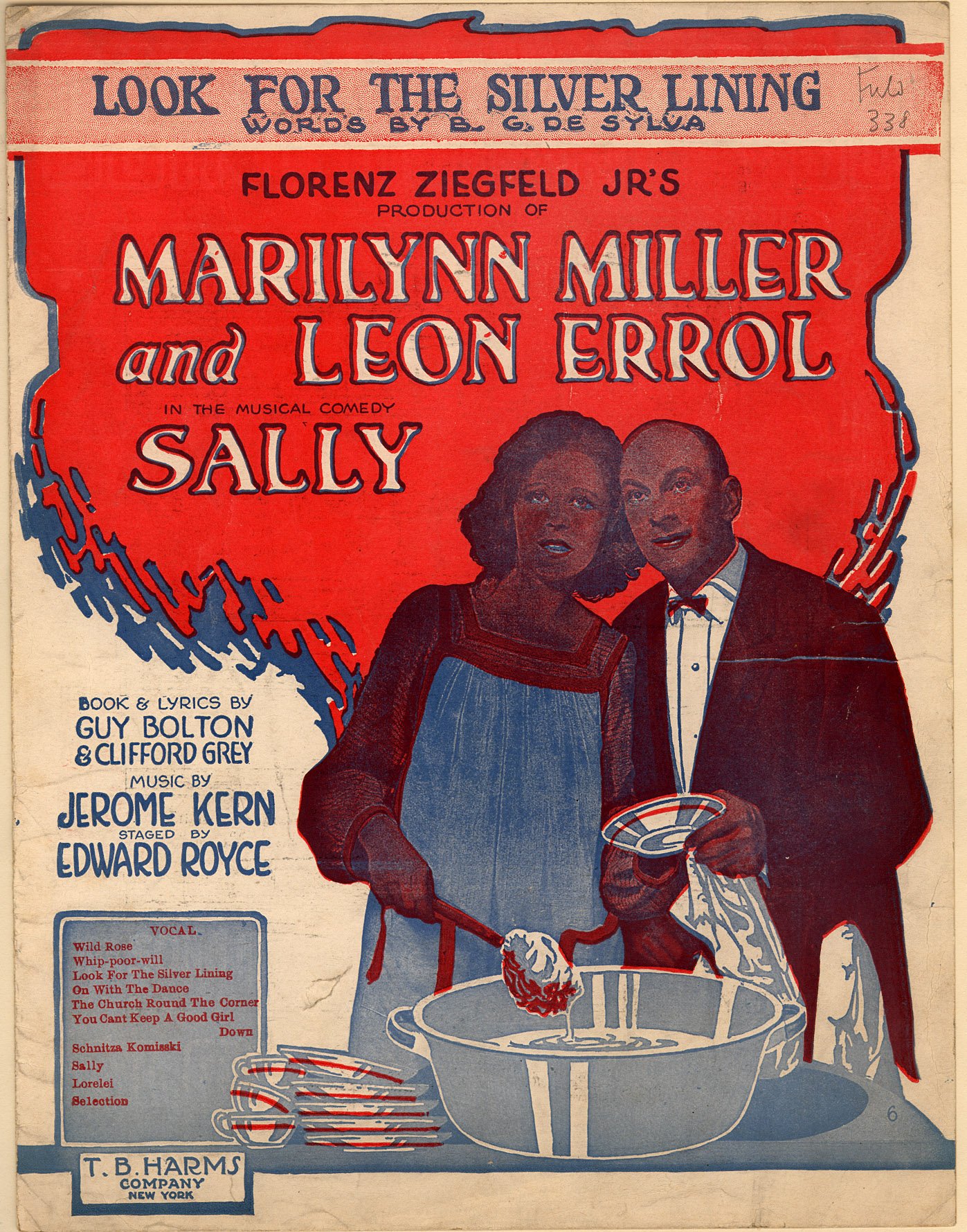 Sheet music cover of "Look for the Silver Lining", from the musical Sally.